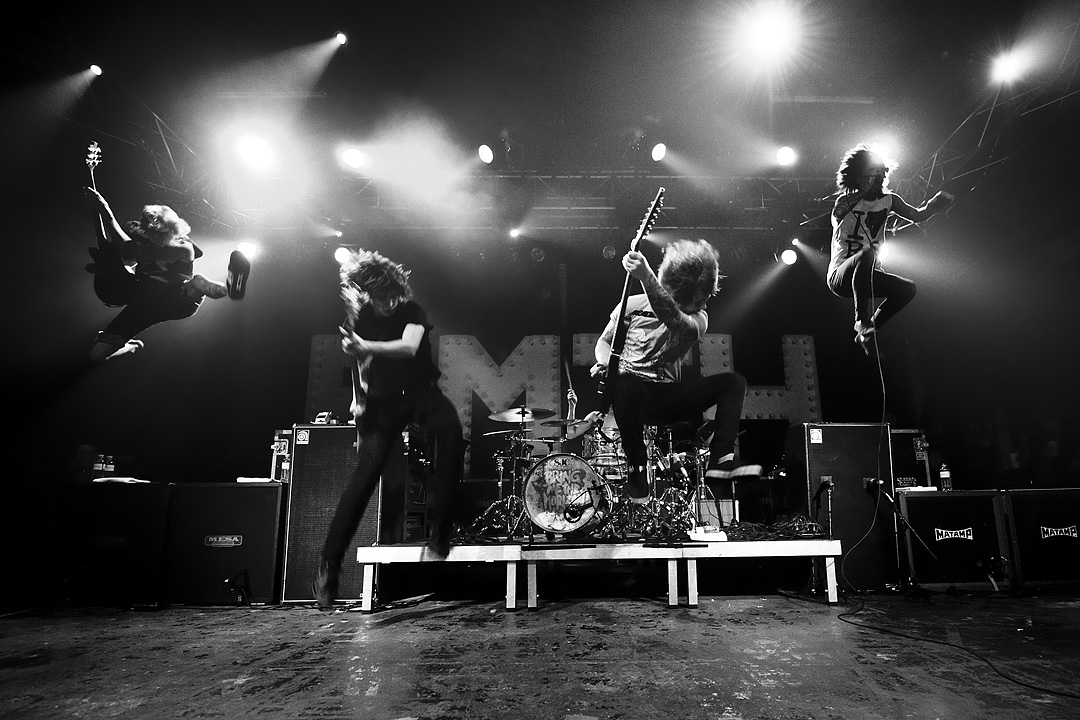 Bring Me The Horizon at Arena, Vienna